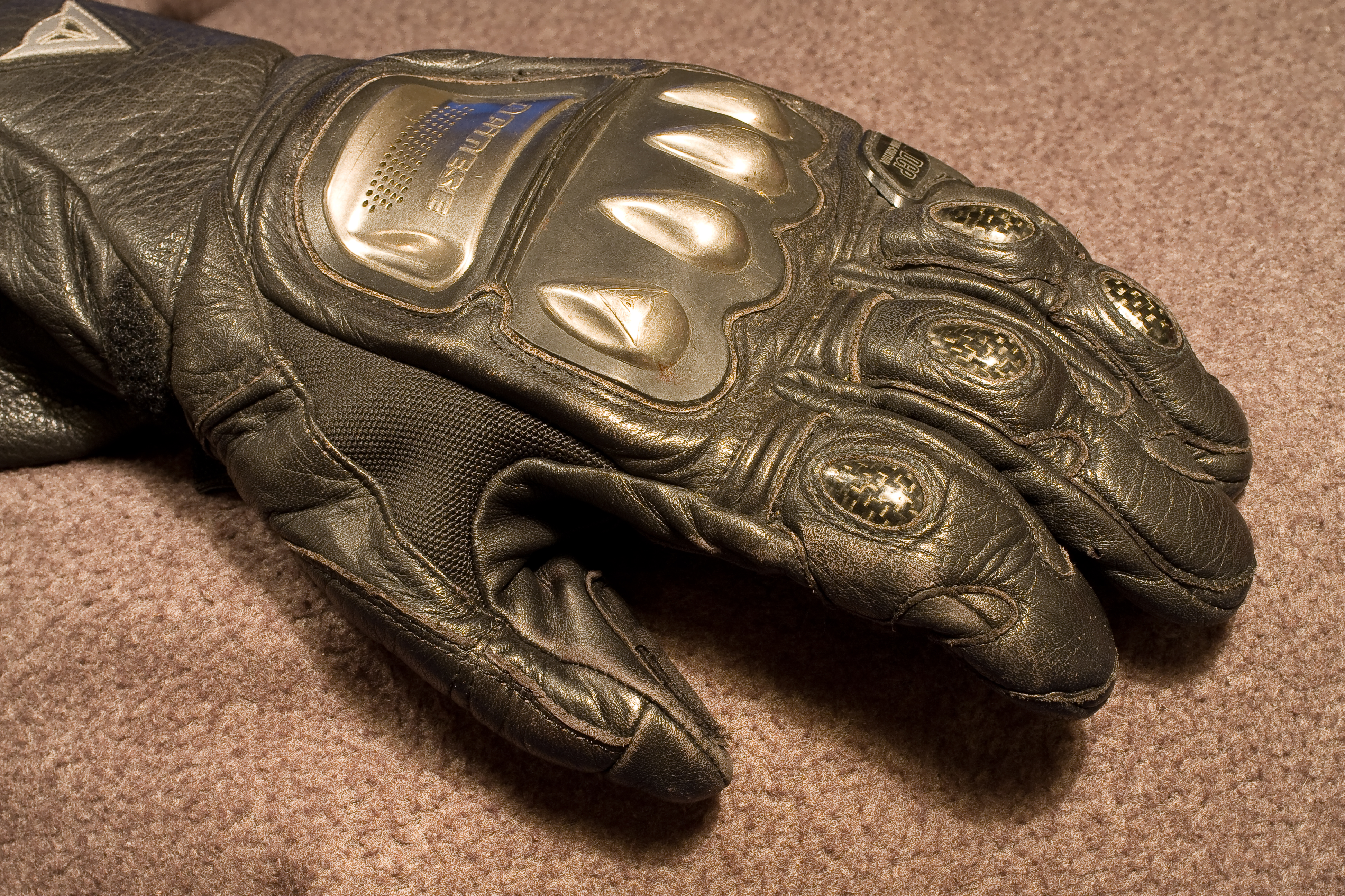 Motorcycling racing glove. Notice the carbon fibre protectors for ligaments in fingers as well as the titanium knuckle protectors and shock absorbing construction of backhand.